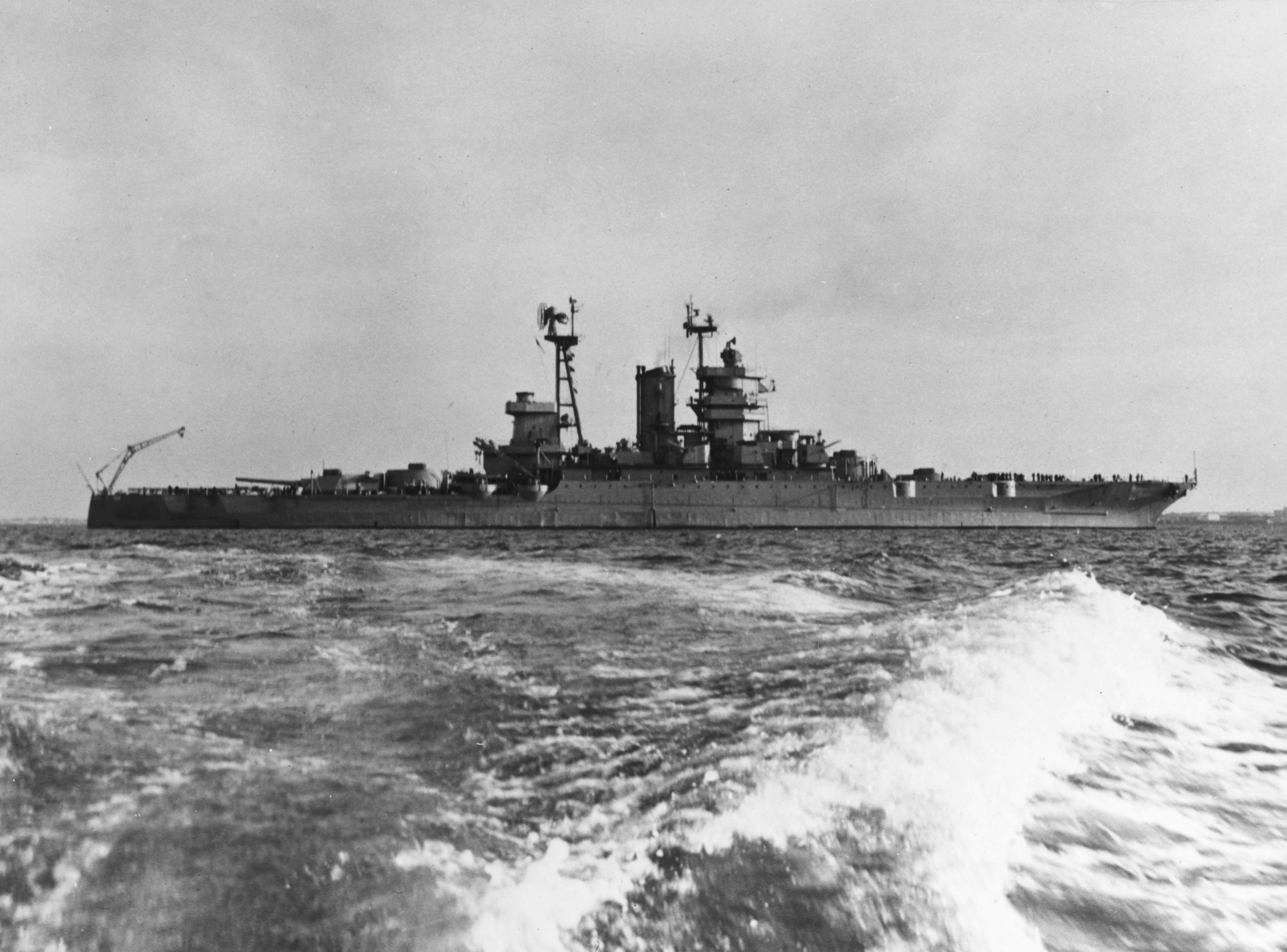 The U.S. Navy gunnery training ship USS Mississippi (AG-128) photographed in 1947-48. She retains only her after 14 in gun turret, but carries numerous smaller weapons and a special radar suite.